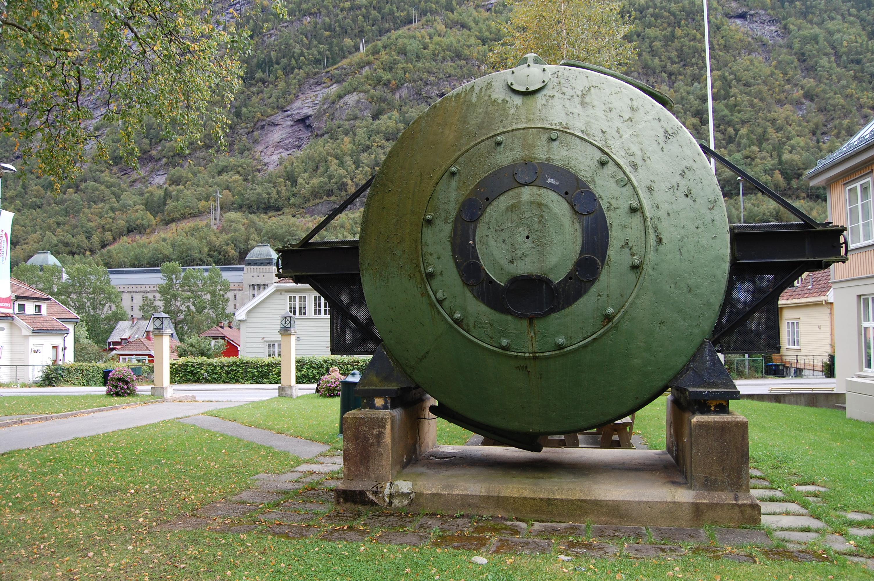 Birkeland-Eyde's electric arc furnace, exhibited in a park in Rjukan, Norway. Furnace plaque information: "The furnace was invented and constructed by professor Kristian Birkeland and dr.ing. H.C. Sam Eyde for the fixation of atmospheric nitrogen. Furnaces of this type were in operation at Rjukan from 1912 to 1940. From 1928 the elctric arc process was gradually replaced by the ammonia synthesis process."